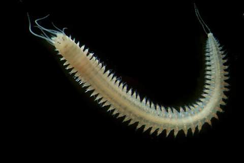 PRESERVED_SPECIMEN; ; ; 70% alc.; IZ number 35344; lot count 1; 2004-05-21T00:00:00Z